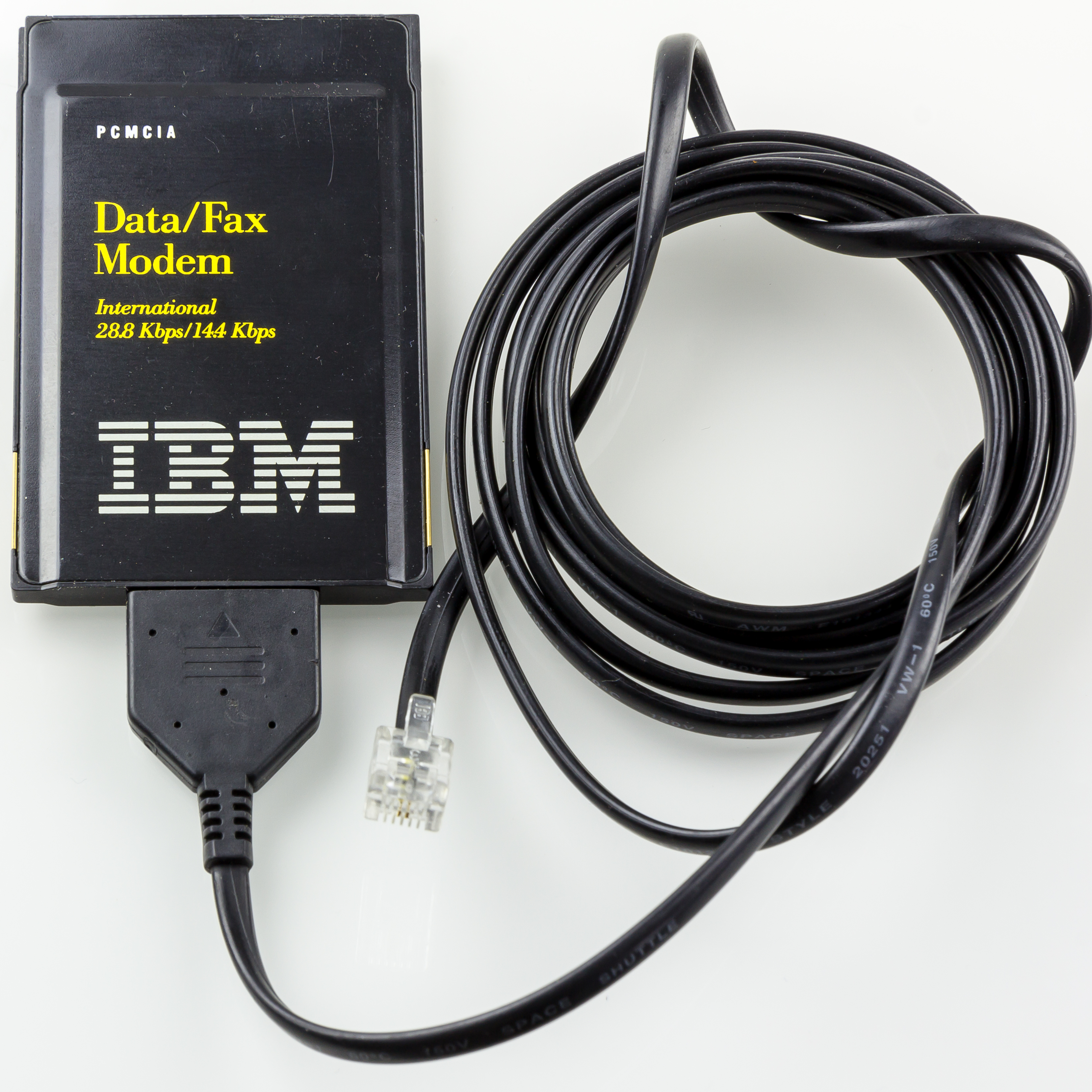 IBM PCMCIA Data/Fax Modem V.34 FRU 42H4326